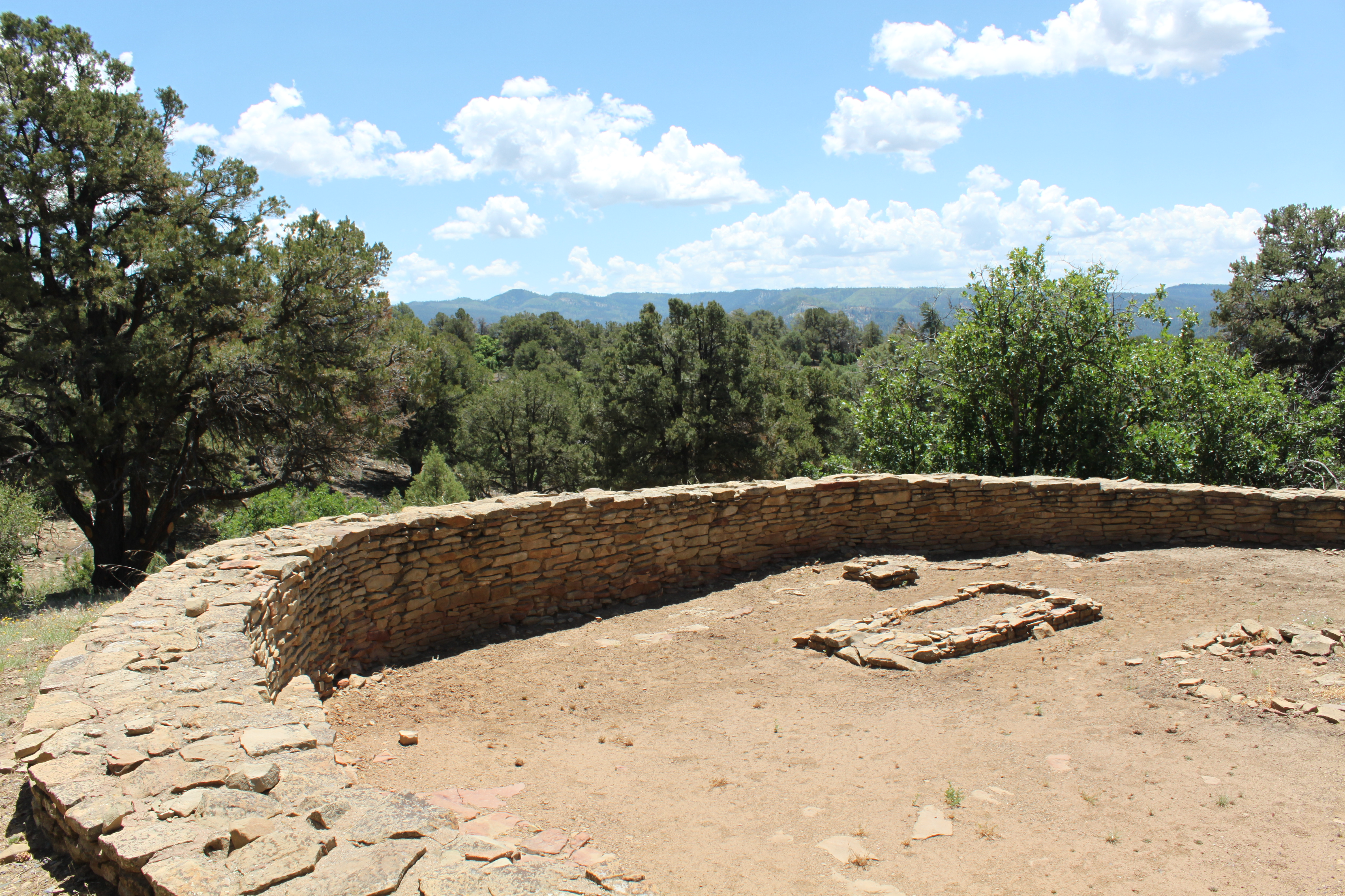 The Great Kiva is located within the Chimney Rock Archaeology Area in the San Juan National Forest in Archuleta County Colorado. Experts believe this to have been built circa 1084 by the early Puebloan people. It would have originally bore an adobe plaster exterior. The structure was rebuilt in 1972.